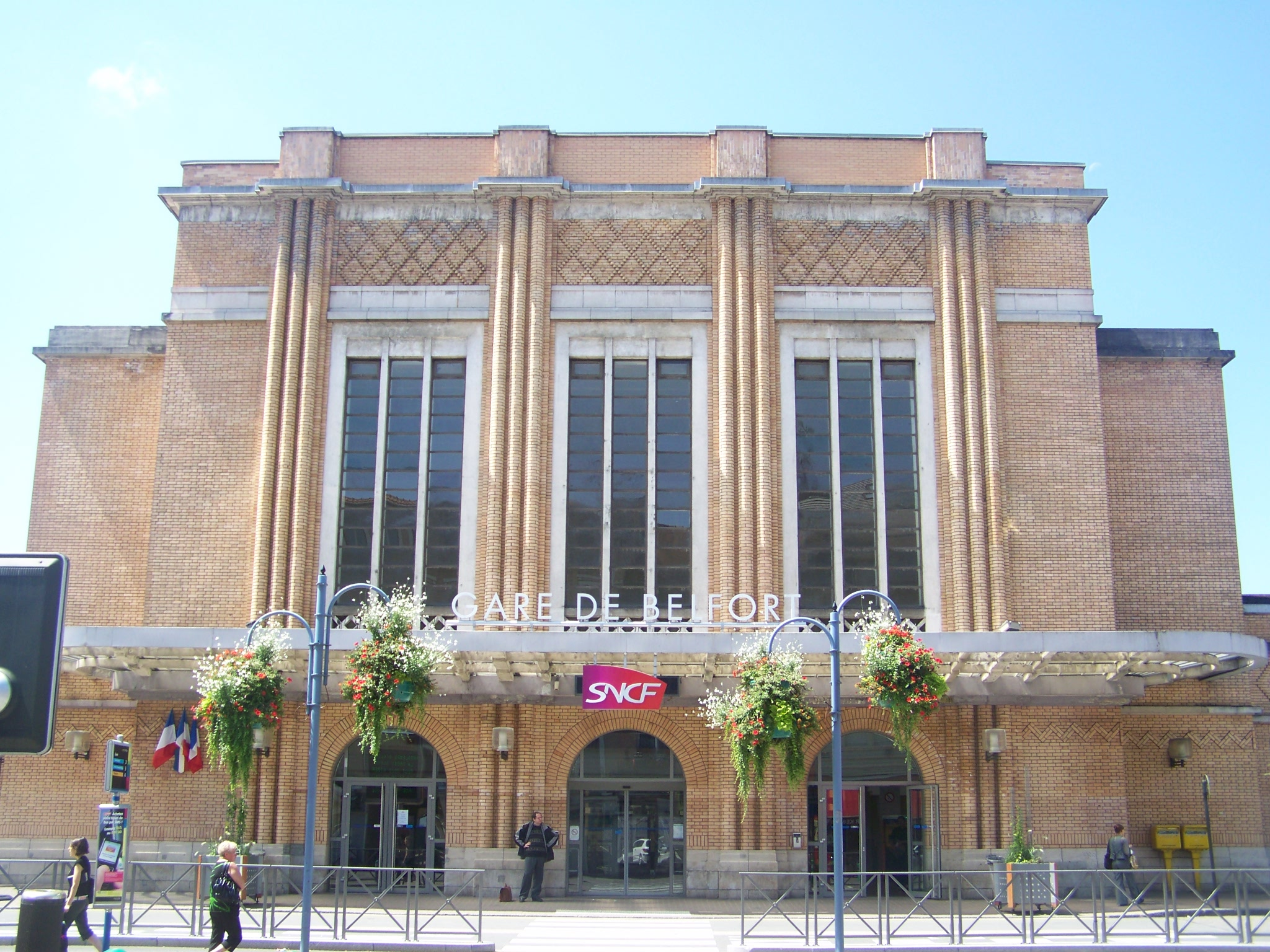 View of the huge facade of the French city of Belfort railway station, in Territoire de Belfort.